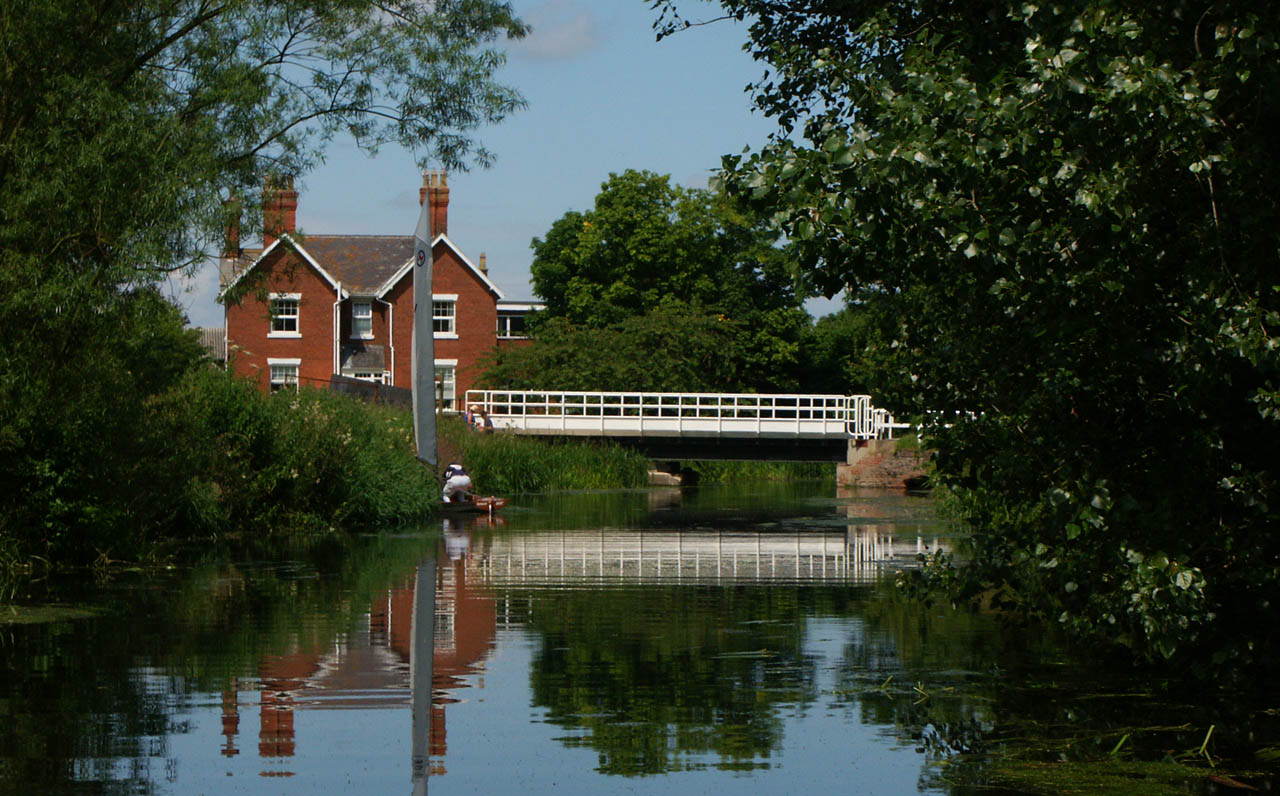 The newly restored swing bridge at Brigham, East Riding of Yorkshire, England.